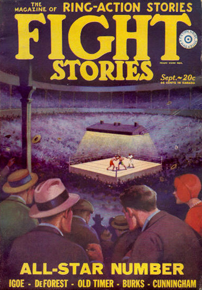 Cover, Fight Stories Volume 2, #4 (Sept. 1929) Fiction House (defunct co.) pulp magazine; art by F. R. Glass